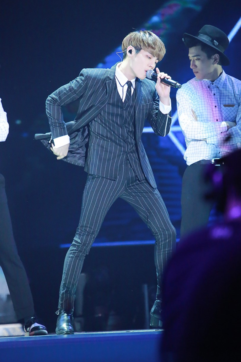 Jonghyun at Kugou Music Festival, on March 29, 2016.